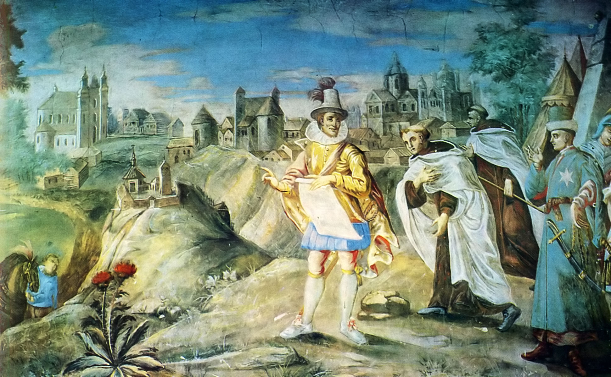 A marshalek reading the pope's bull on building monasteries in Mogilev, XVII century.